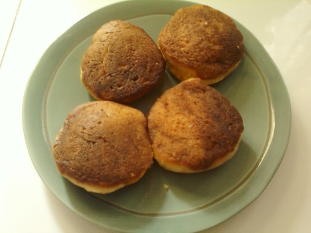 Khamir (or Kamir), a cake baked of fermented dough of wheat or rice flour. Originally introduced by descendants of Arab Indonesians, in Indonesia the cake is recognized as the traditional cake of Pemalang, Central Java, Indonesia. Small Khamir cakes.